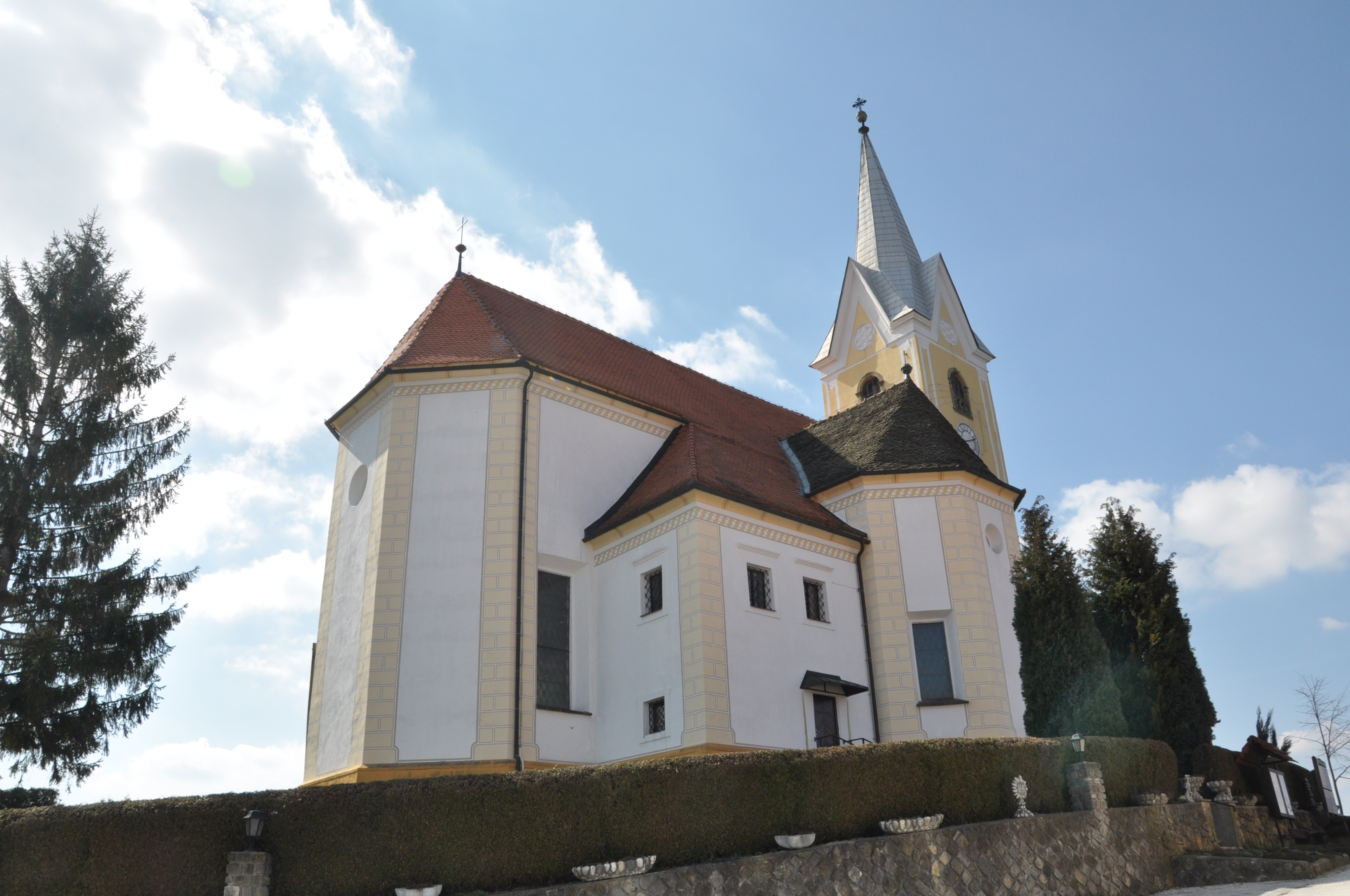 Hemma of Gurk Church, Sveta Ema